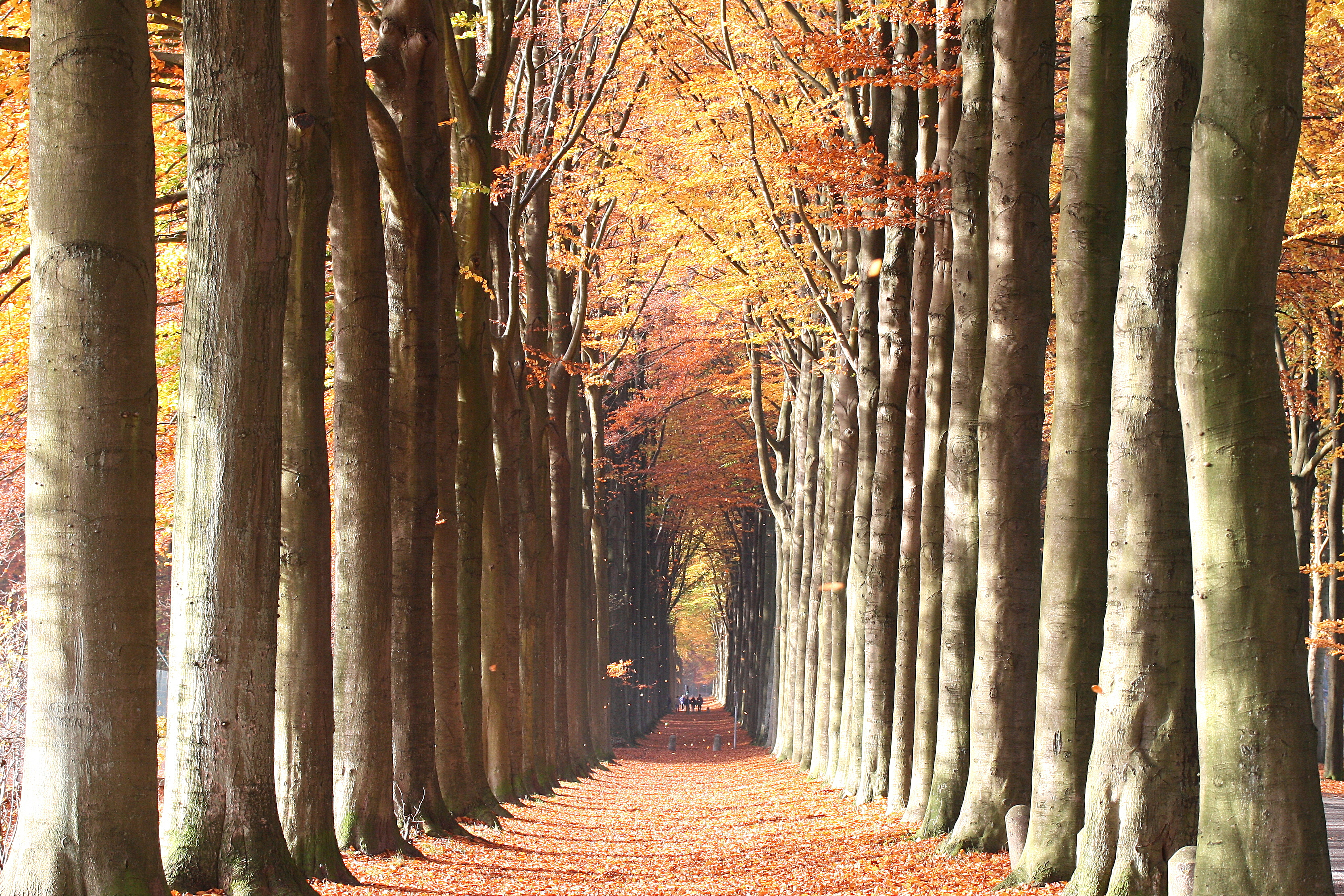 La Hestre (Belgium), the double European beech avenue (alley) of Domaine de Mariemont.